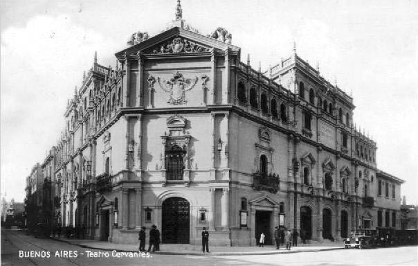 Front view of Teatro Cervantes in Buenos Aires. The building is located on the corner of Avenida Córdoba and Libertad, in Recoleta neighborhood.